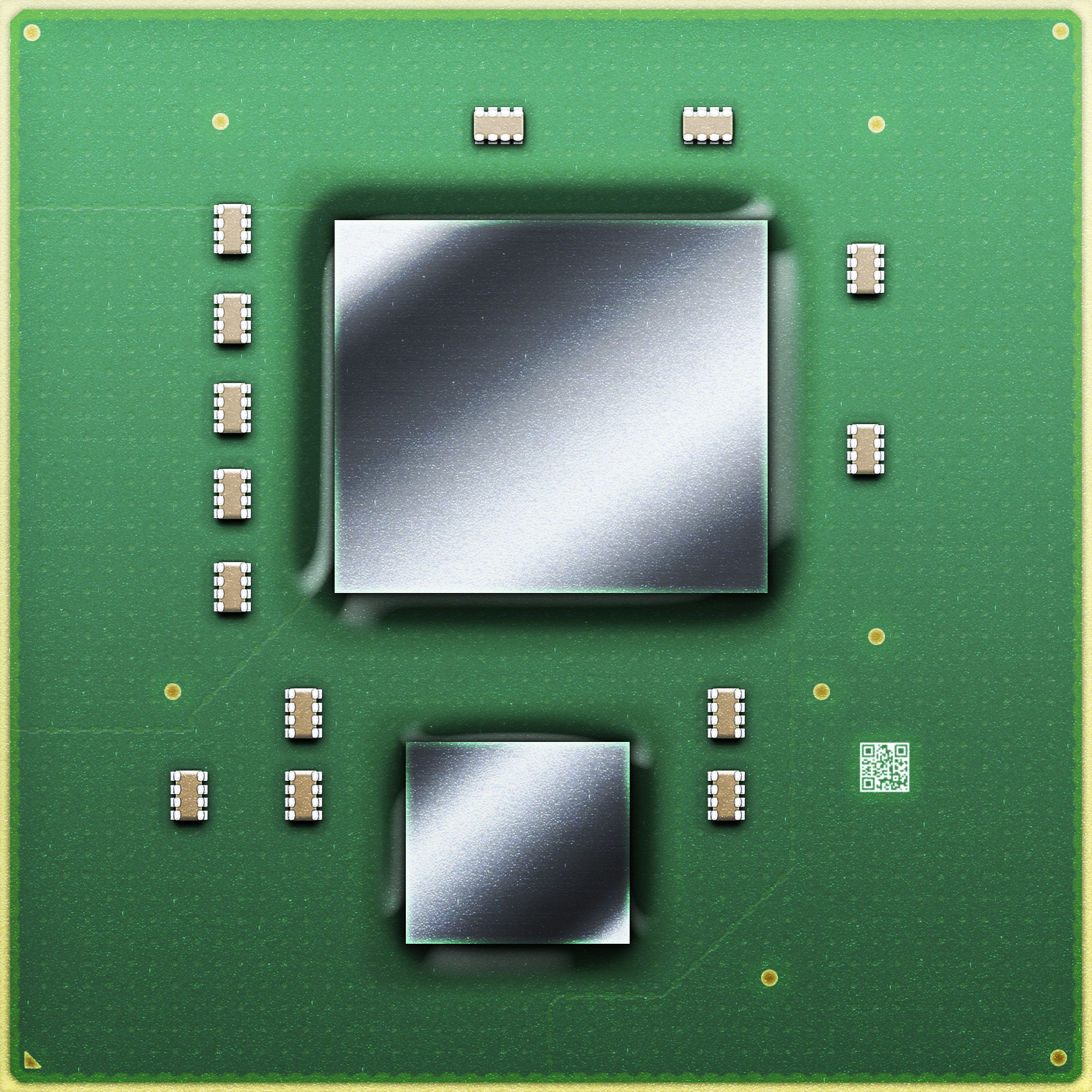 An illustration of the system on a chip (SoC) unit inside Microsoft's game console Xbox 360 S. This part is called XCGPU. It's a multi chip module, consisting of two chips. The larger chip is the XCGPU consisting of an "XCPU" processor complex designed by IBM and a "Xenos" graphics processor designed by ATI/AMD and made on a 45 nm fabrication process. The smaller chip is 10 MB eDRAM manufactured on a 45 nm fabrication process. This specimen is manufactured by Global Foundries in Singapore and packaged by IBM at their plant in Bromont, Canada. It was manufactured sometime in 2010. Inspiration for the image comes from pictures at